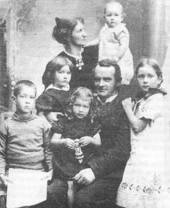 Architect Ejvind Mørch (1873-1962) with his wife, painter and decorator Gudrun Trier (1877-1956) and some of their children, fall 1906.